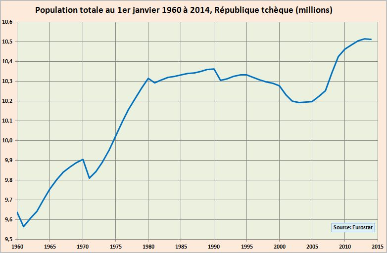 Czech Republic's population (1960-2014).